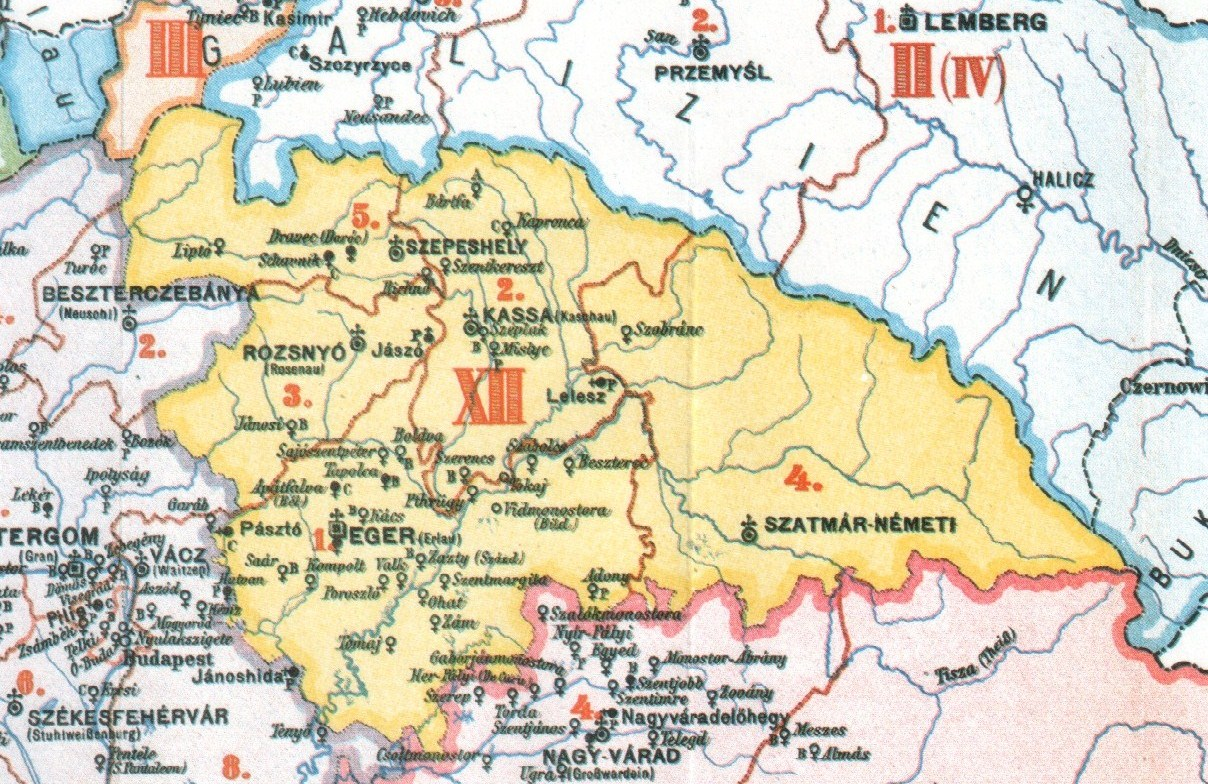 Map of the ecclesiastical province of Eger in Austria-Hungary.